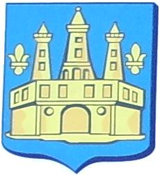 Coat of arms of Genappe, Belgium